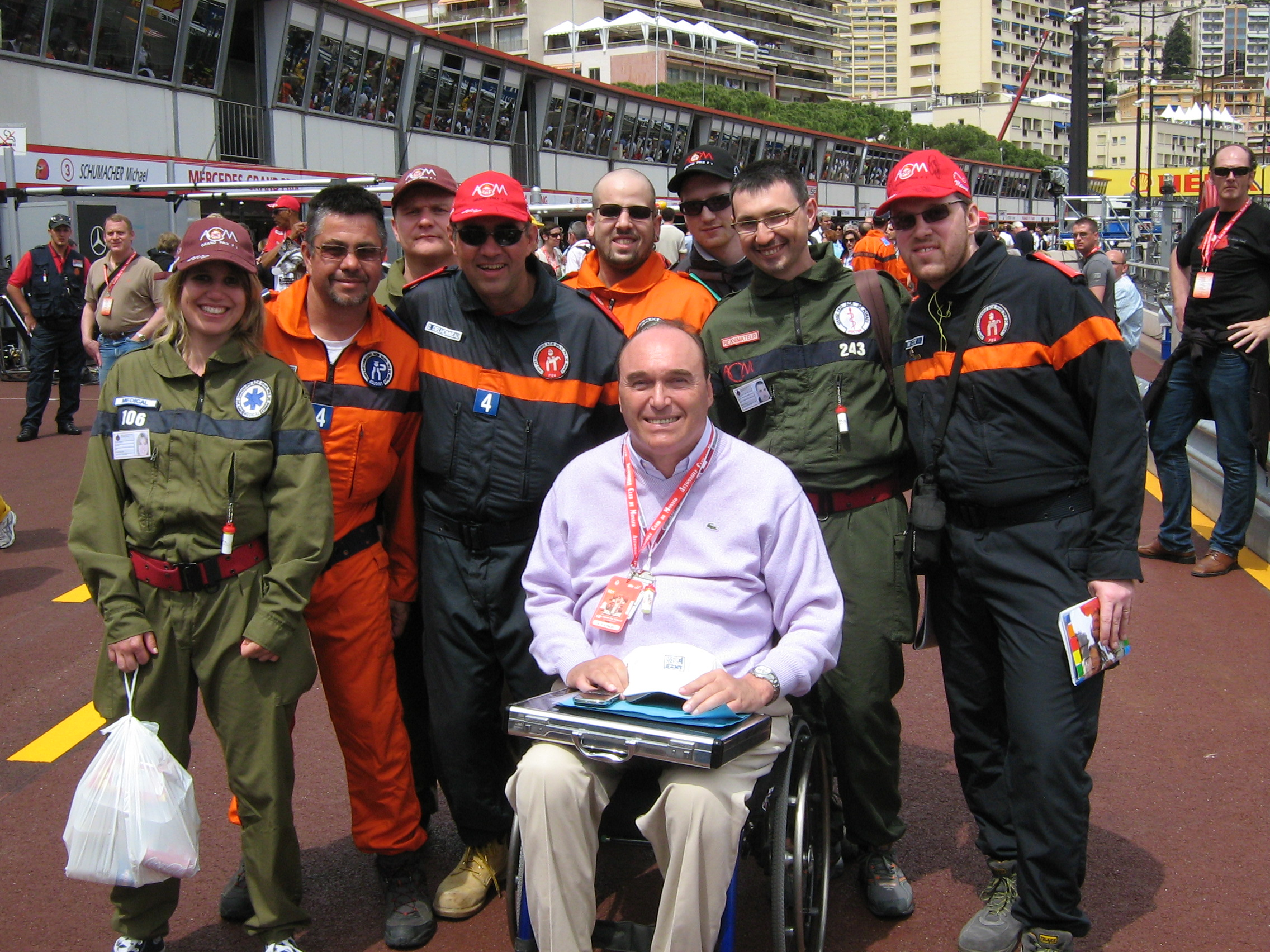 Philippe Streiff and marshals at Monaco GP 2010